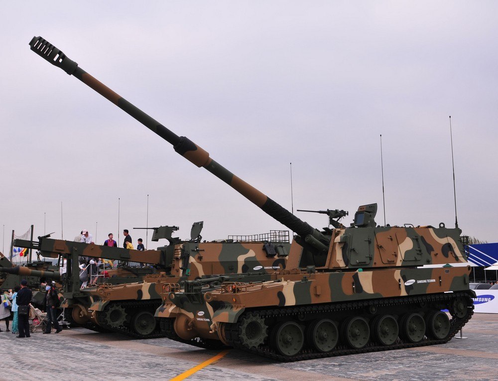 K-9 Thunder self-propelled artillery of the ROK Armed Forces